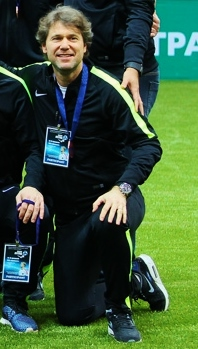 Florin Răducioiu